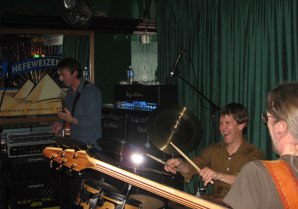 Allan_Holdsworth, Chad_Wackerman, and Jimmy Johnson, Huntington Beach, California.